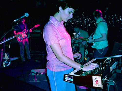 Stereolab live in concert.